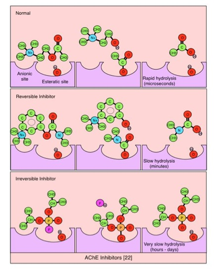 depiction of the AChe inhibitors mechanism